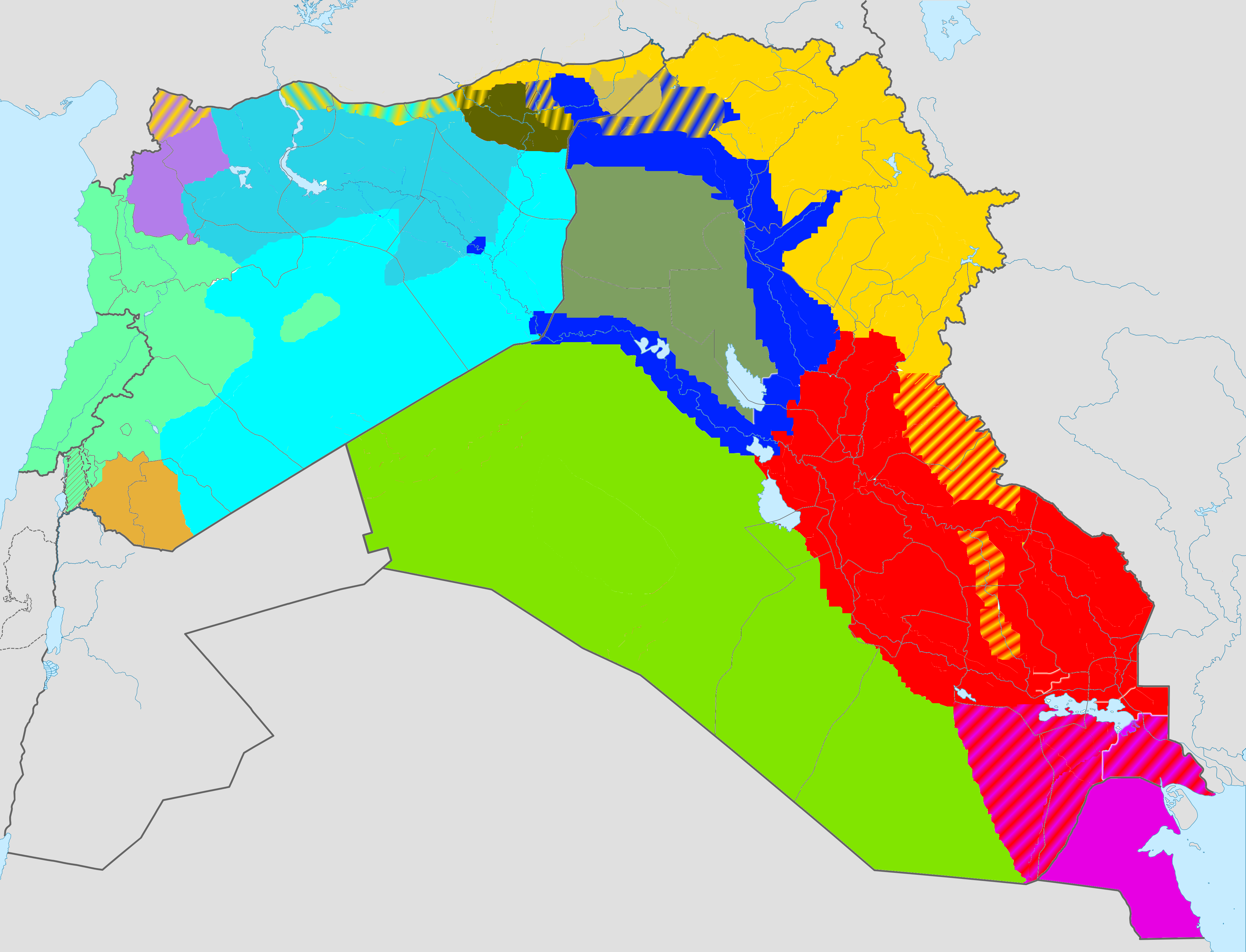 Badawi: Badawi (incl. Najdi) Badawi in Northern Iraq Shammar and Tayy Baggara South Shawi North Shawi Gulf Arabic Levantine: North Levantine Central Levantine South Levantine (Haurani) Mesopotamian: North Mesopotamian (qəltu) Iraqi (gilit) Kurdish